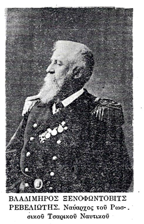 Russian admiral of Greek descent Vladimir Revelioti (1859-1929)